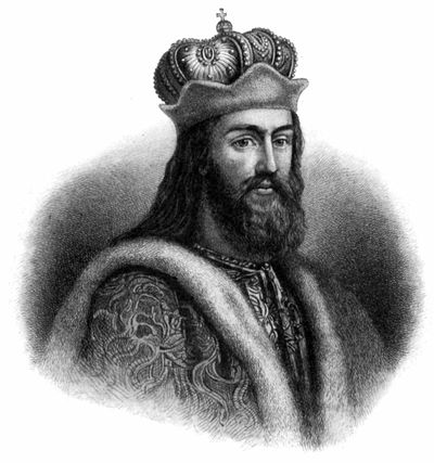 Vladimir I of Kiev. "Vladimir Svyatoslavich the Great (c. 958 – 15 July 1015, Berestovo) was the grand prince of Kiev who converted to Christianity in 988, and proceeded to baptise the whole Kievan Rus"